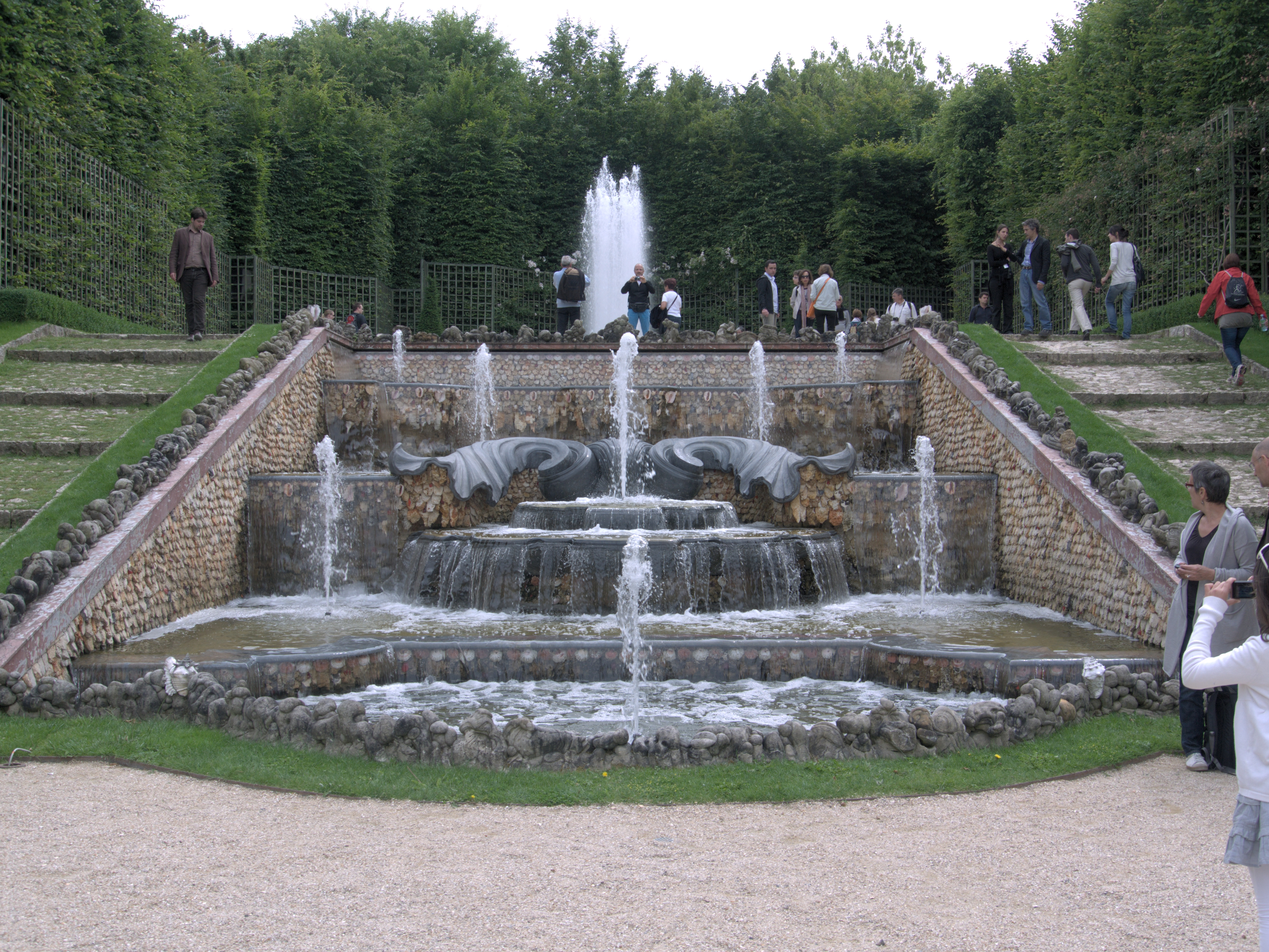 Photograph taken at the Park of the 'Château de Versailles' in France.